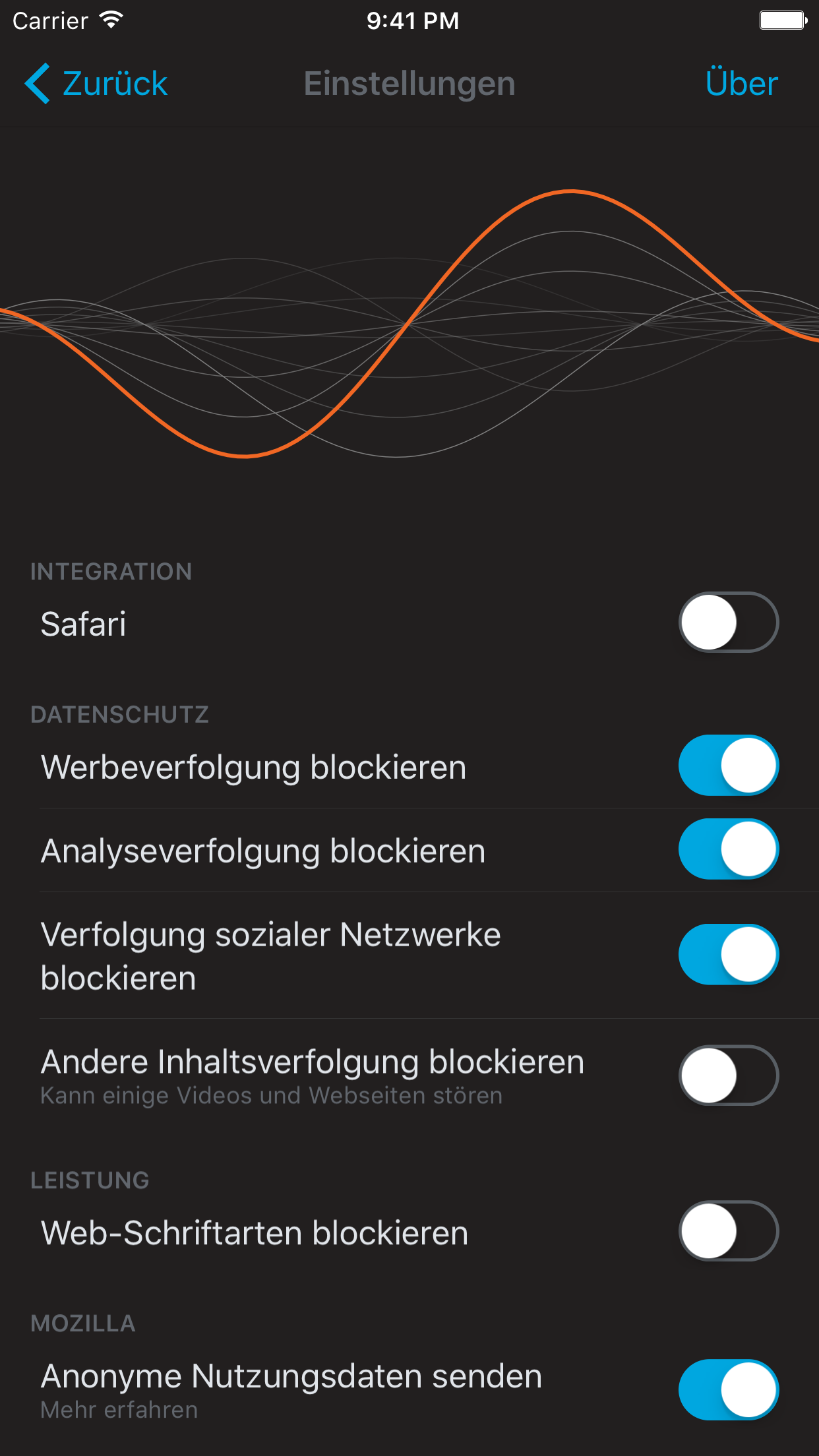 Mozilla Firefox Focus options